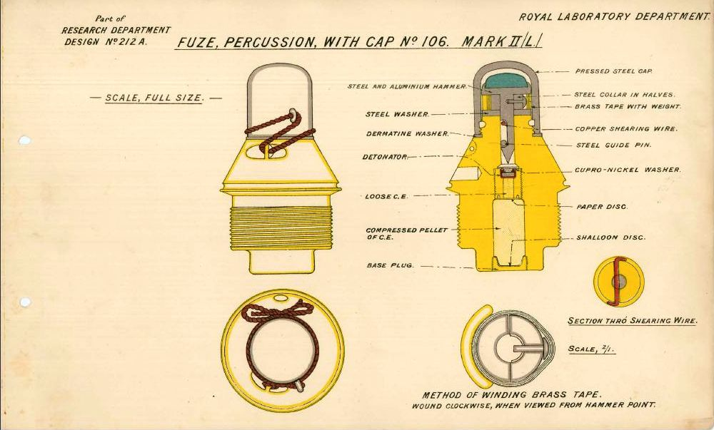 Diagram of British No. 106 Mk II instantaneous fuze, World War I.